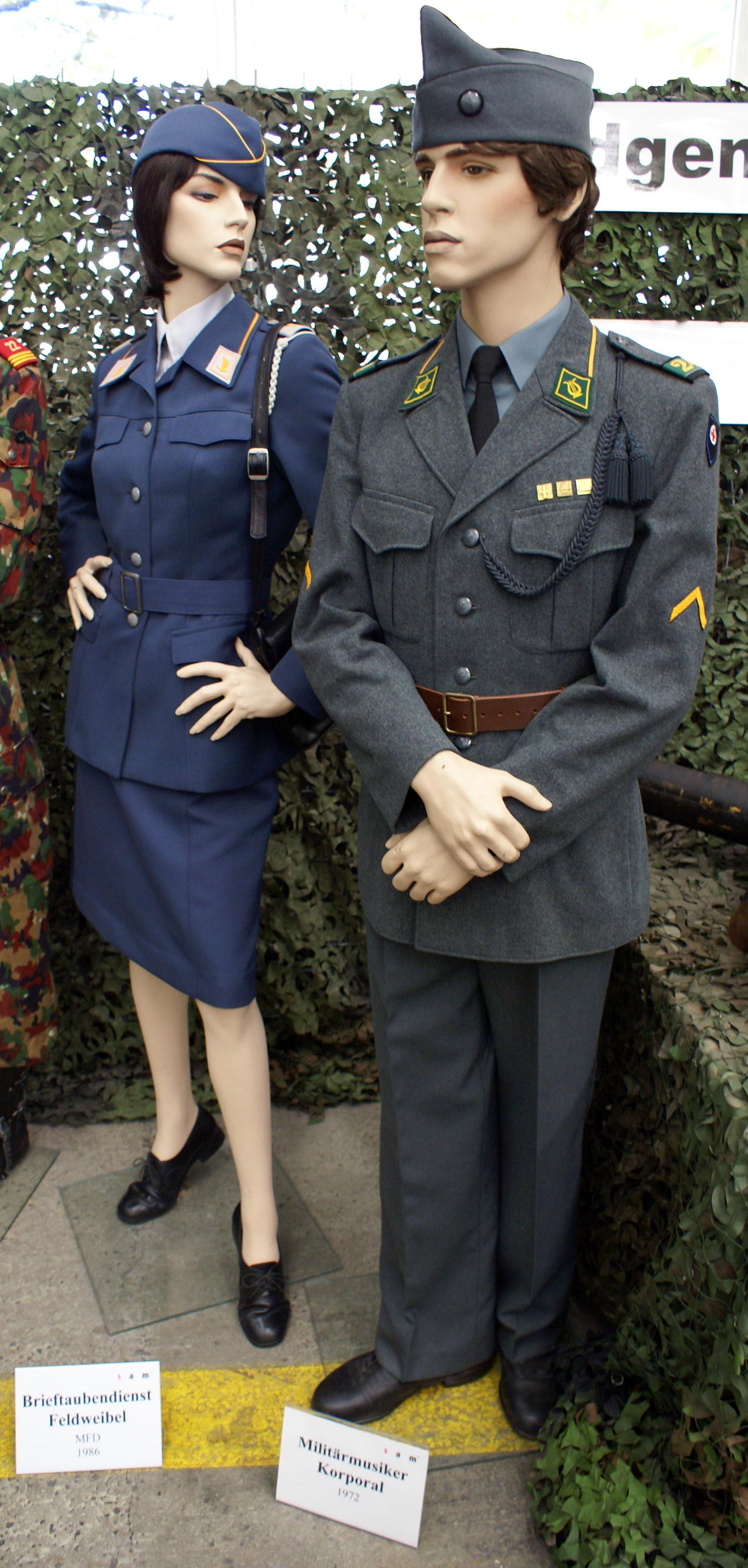 Swiss Army. Left, homing pigeon service sergeant major, Women's Military Service, uniform of 1986. Right, military music corporal, uniform of 1972. Swiss Army Museum.